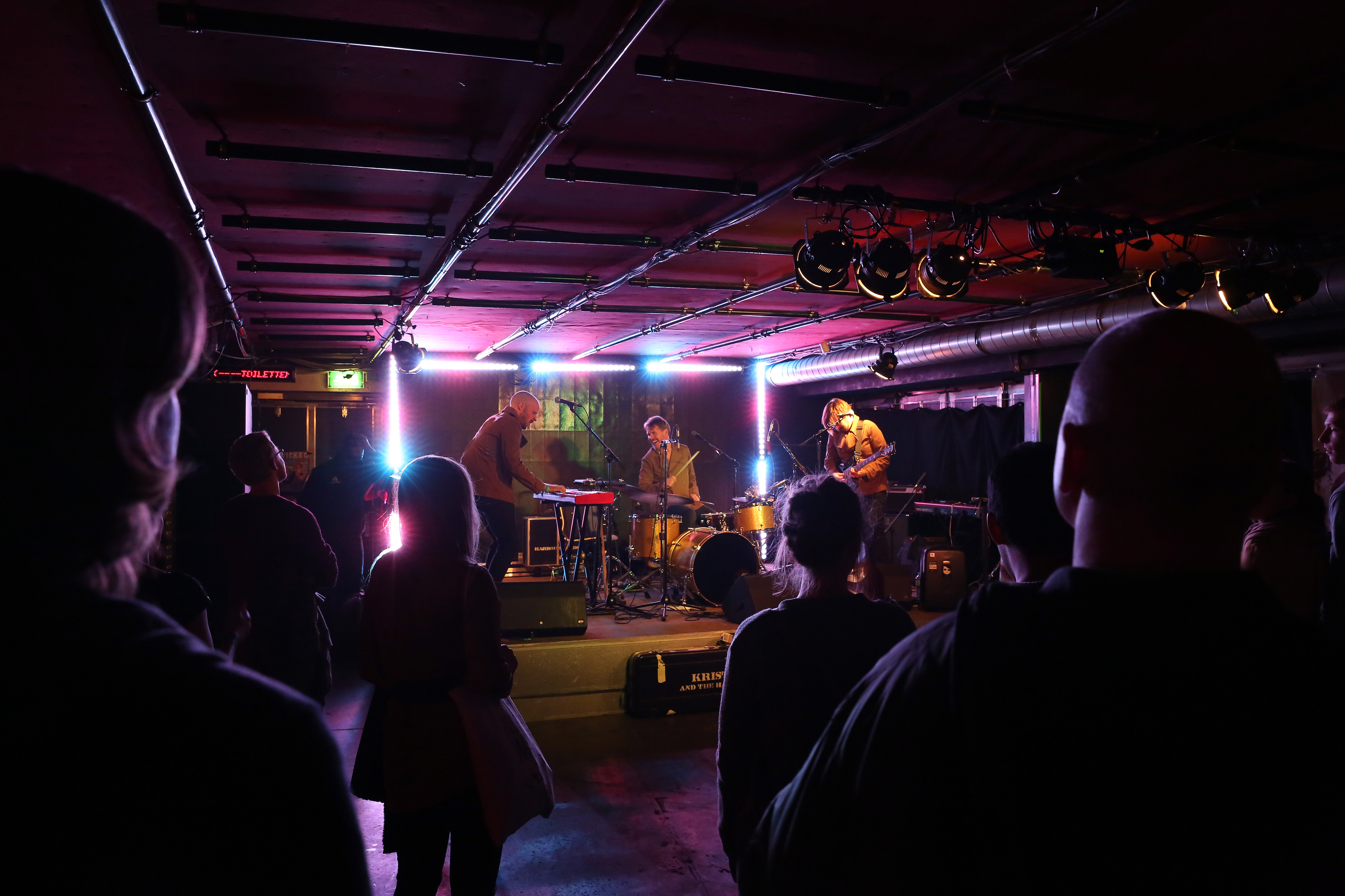 Kristoffer and the Harbour Heads - concert at Flex Café during Waves Vienna Music Festival & Conference 2013 in Vienna, Austria.